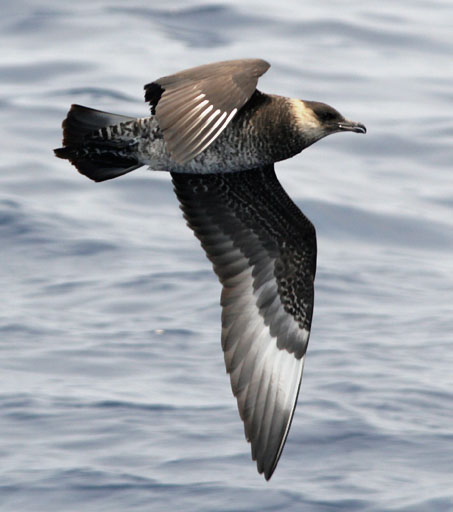 Common name, Stercorarius pomarinus, Location: Atlantic Ocean, off of Hatteras, North Carolina, United States